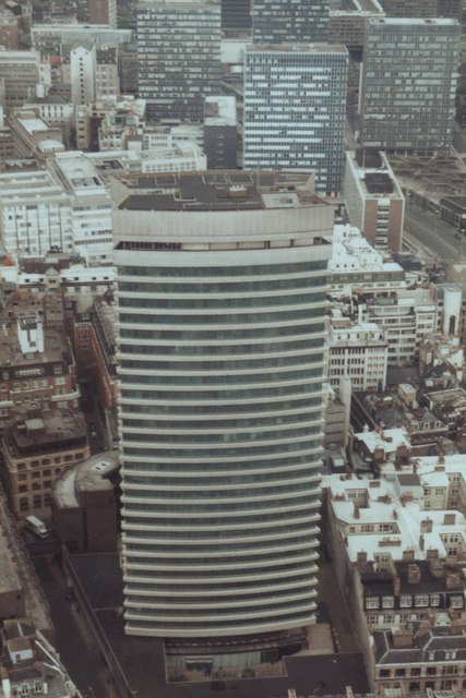 NatWest Drapers Gardens 1983